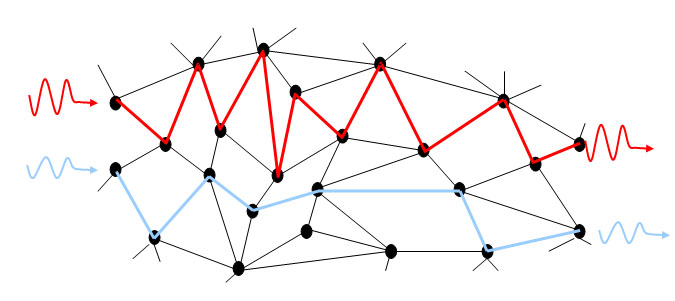 Gamma radiation in spin network